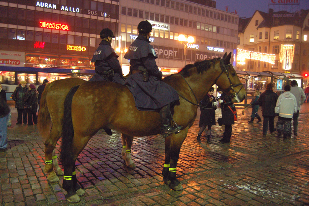 Two policemen at the Christmas sales opening in Turku last September. I find their cloak- or cape-like uniforms to be quite stylish. The white on the ground is drool originating from the nearest horse.Mounted police